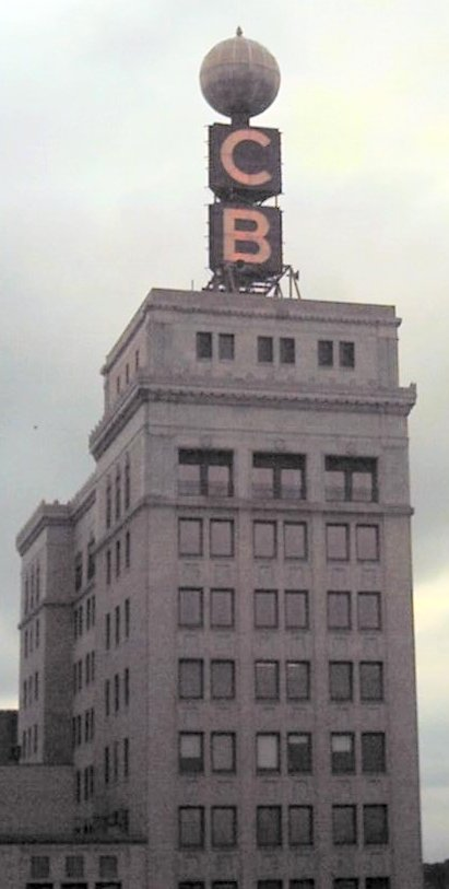 The Citizens Bank Weather Ball atop the Citizens Bank Building in Flint, Michigan.